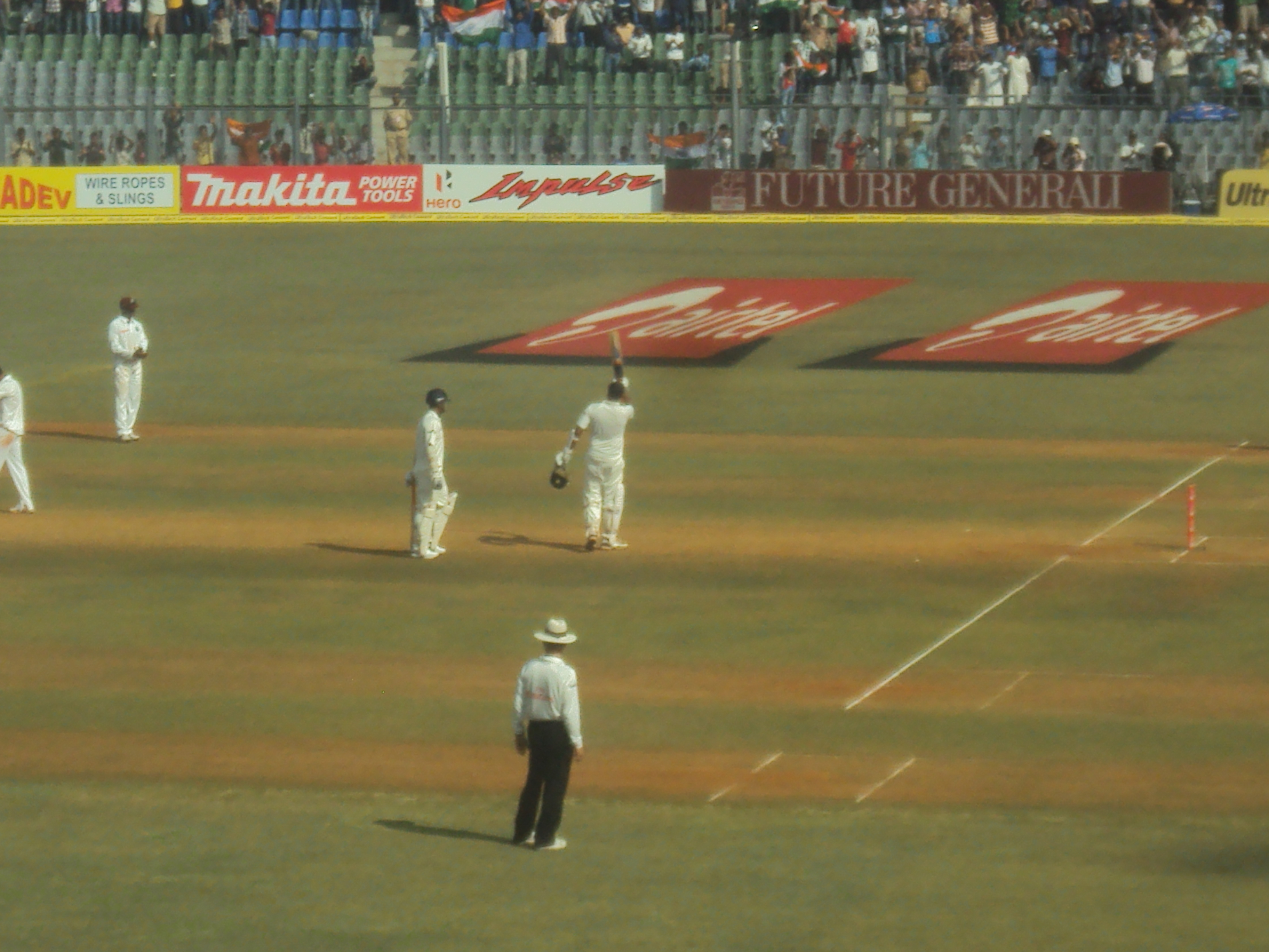 Ravichandran Ashwin scoring his maiden century at the Wankhede Stadium, Mumbai,against West Indies.